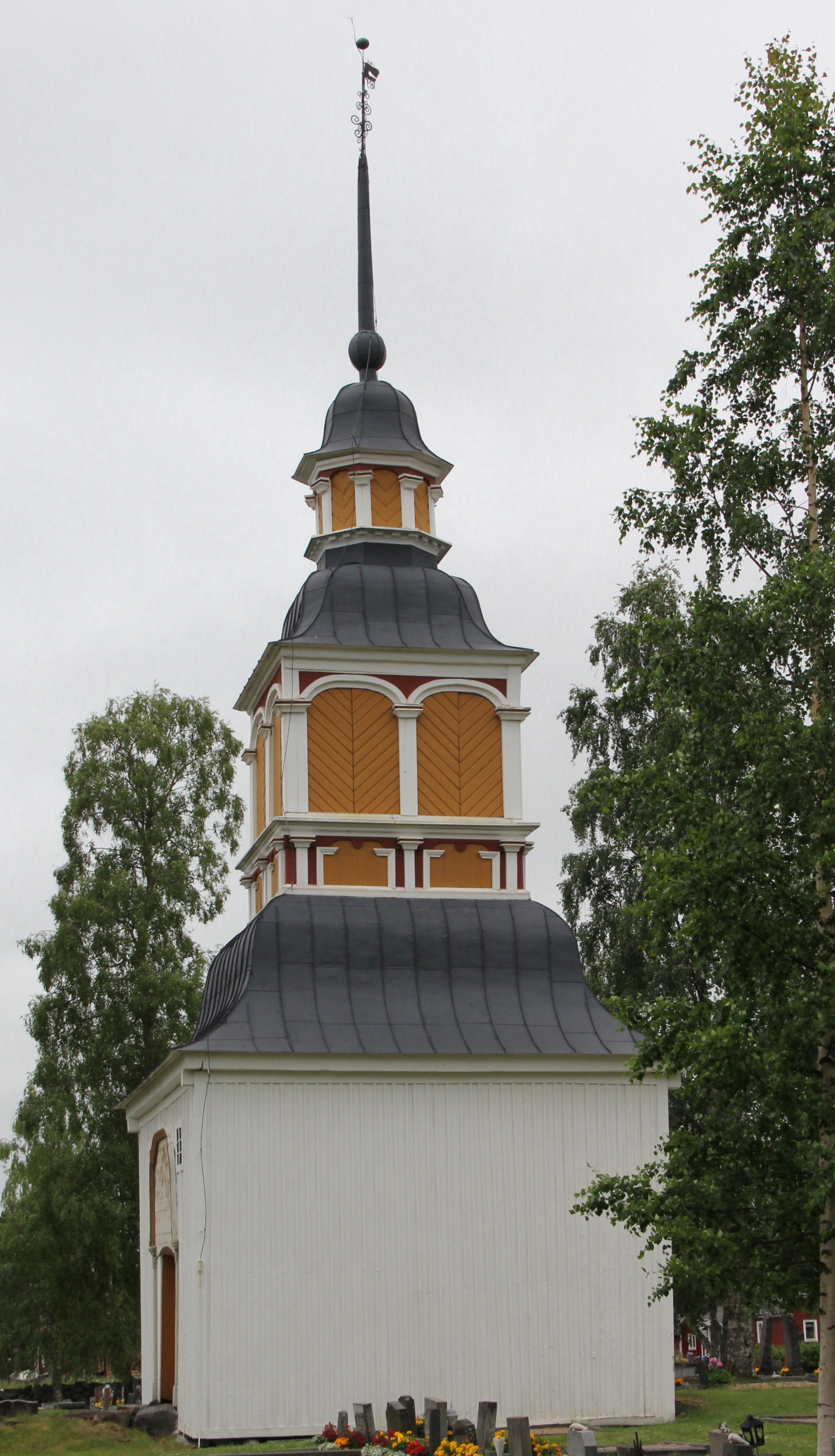 Karl Gustavs church, bell tower, Karungi, Haparanda, Sweden.